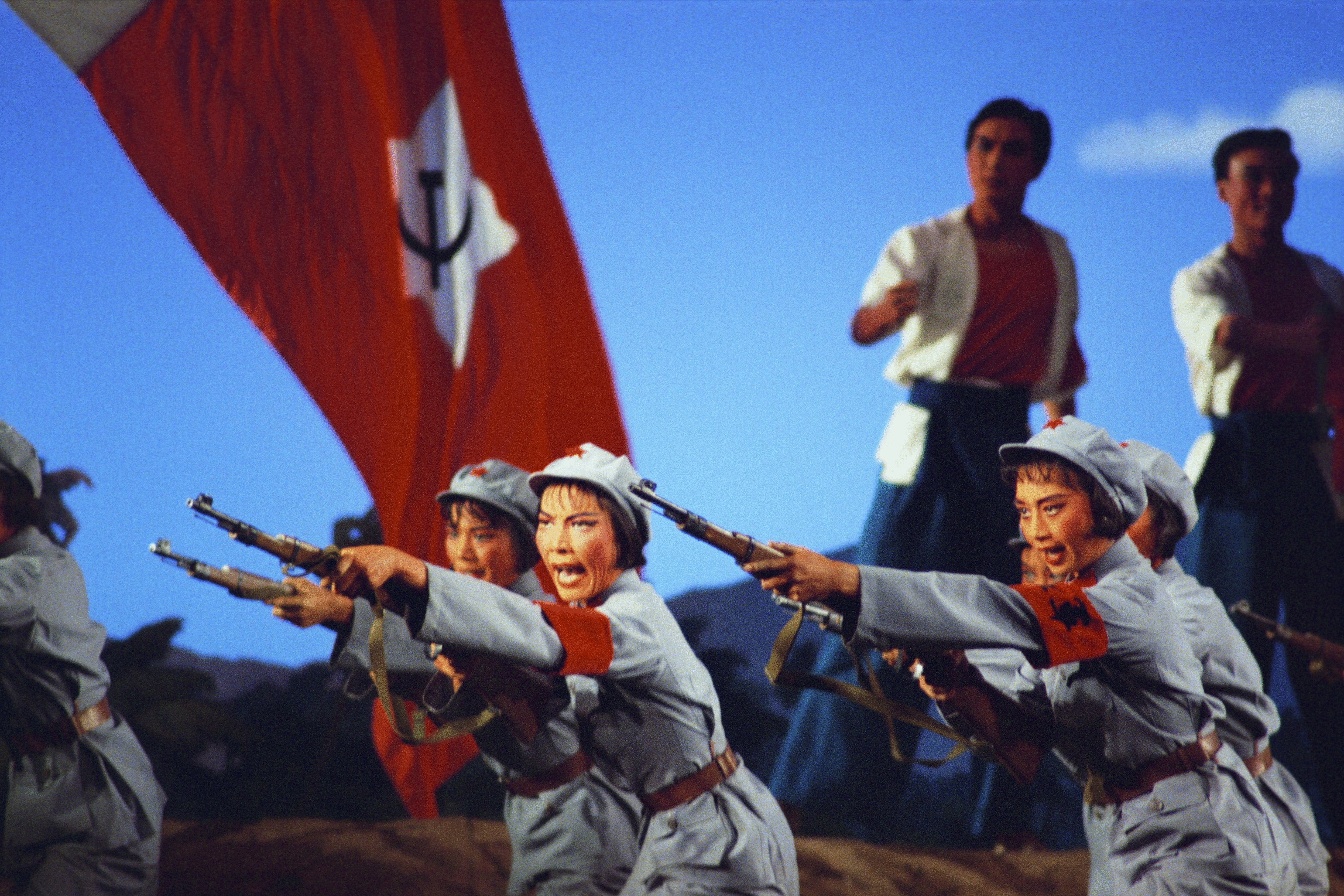 Scene from the The Red Detachment of Women ballet witnessed by Pres. and Mrs. Nixon in the Great Hall of the People, February 22, 1972